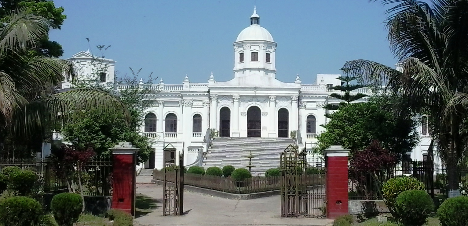 Tajer Hat zamindar Bari, Rangpur